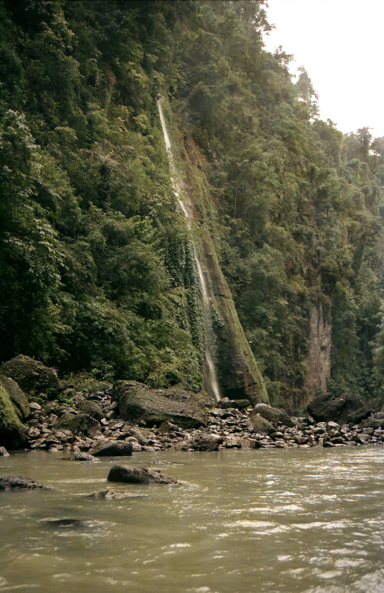 Talagib Falls is the first waterfall encountered by boaters on their way to Pagsanjan Falls.